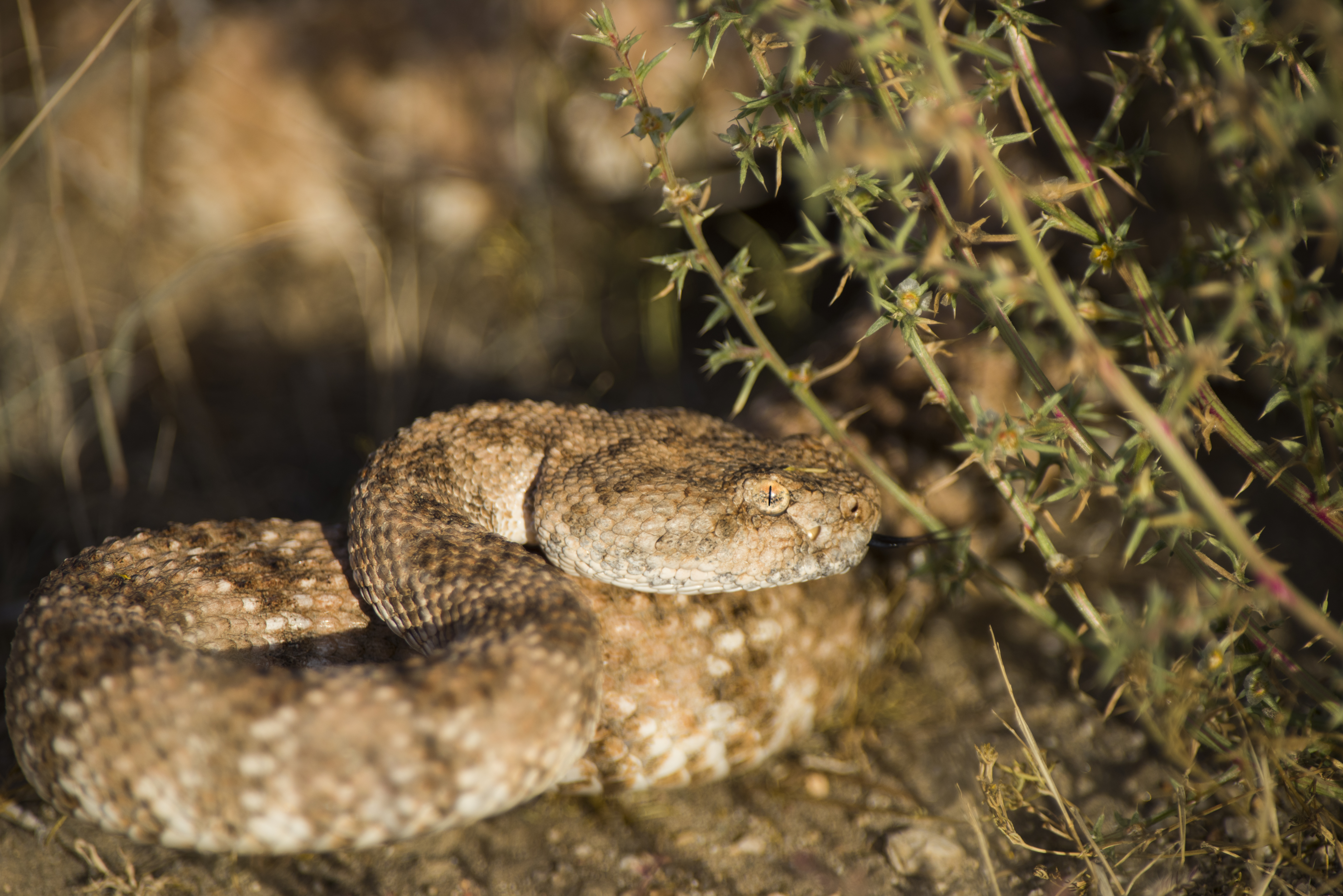 Speckled Rattlesnake (Crotalus mitchellii), Joshua Tree National Park. NPS/Brad Sutton